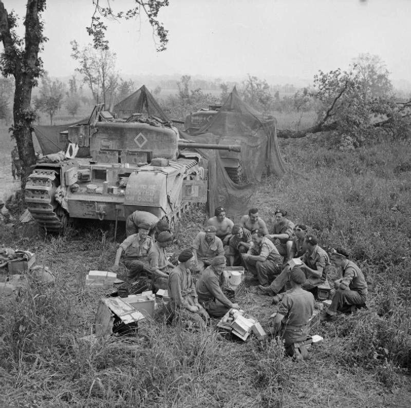 IWM caption : Churchill tank crews HQ Troop, 51st Royal Tank Regiment, 25th Tank Brigade, share out rations near their camouflaged vehicles before going into action in support of 1st Canadian Division, Italy.